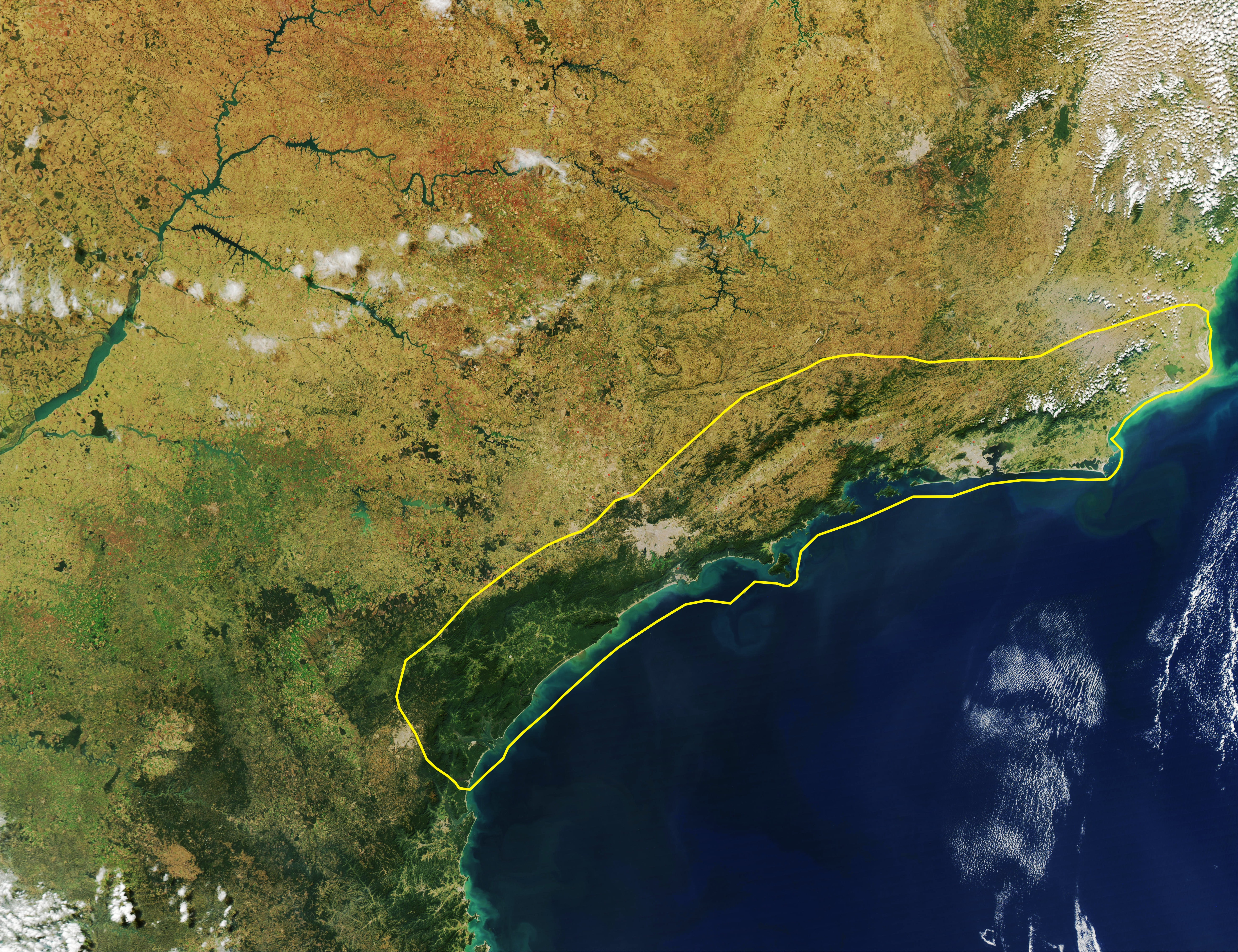 Satellite picture showing Serra do Mar Corridor. Yellow line encloses the corridor limits as delineated by Aguiar et al 2005. I, Miguelrangeljr, made the limits using Corel Draw X4. Satellite image by NASA.